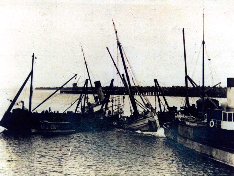 Comboyne being salvaged in Wollongong Harbour 2